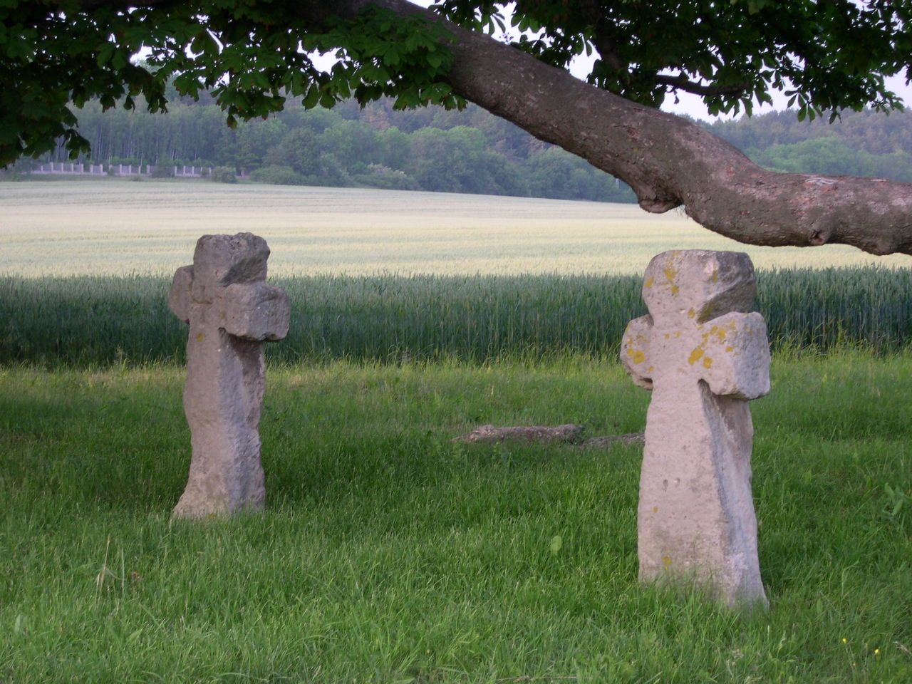 stone crosses for atonement in Tonndorf, Thüringen